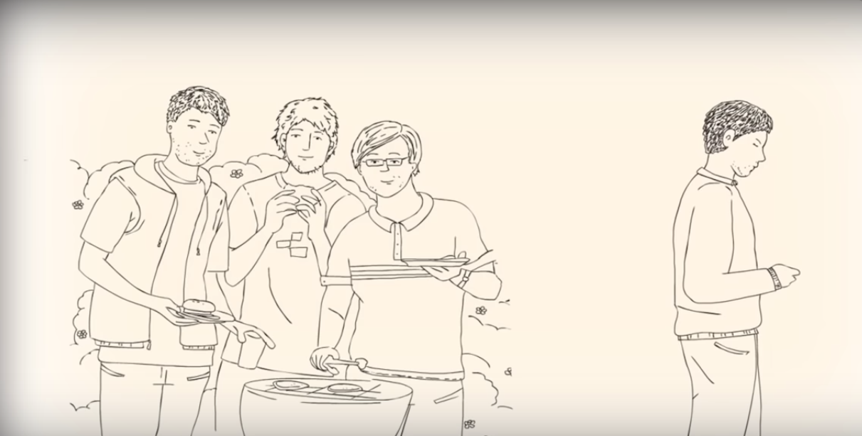 PTSD SELF-ISOLATION